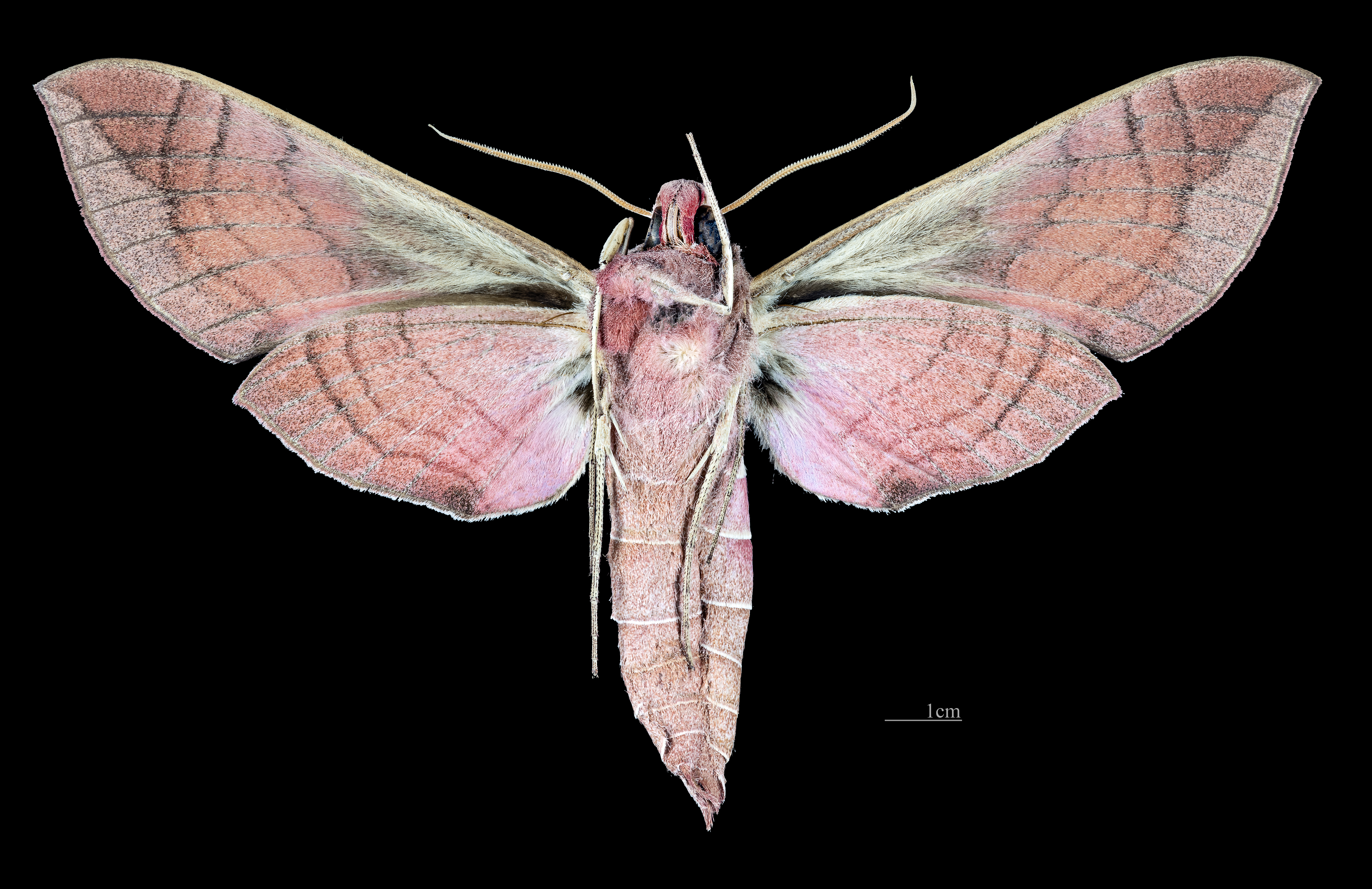 Eumorpha adamsi - △ Ventral side Collection of the Mathematician Laurent Schwartz